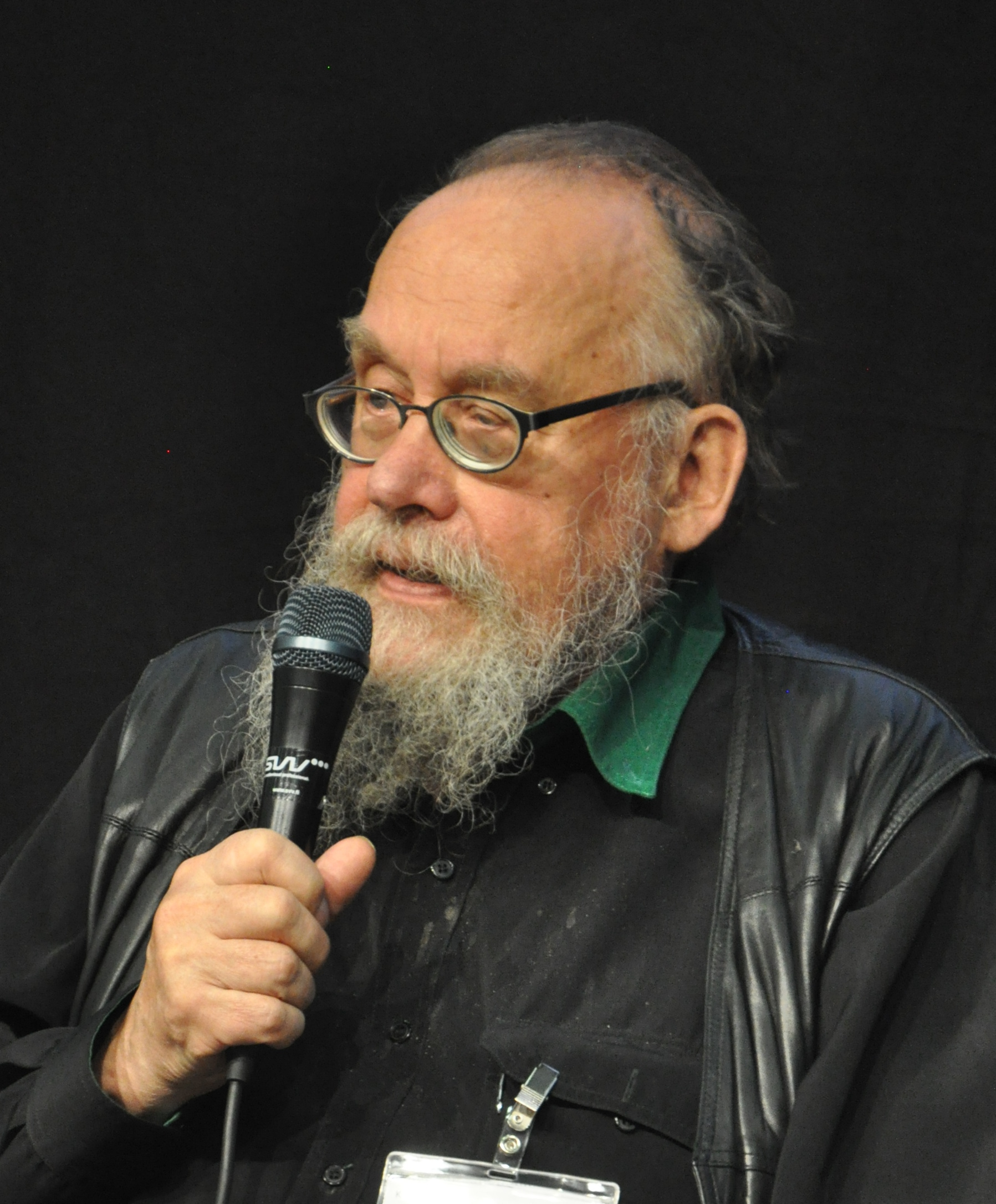 Finnish nature photographer Hannu Hautala at Helsinki Book Fair, 2016.